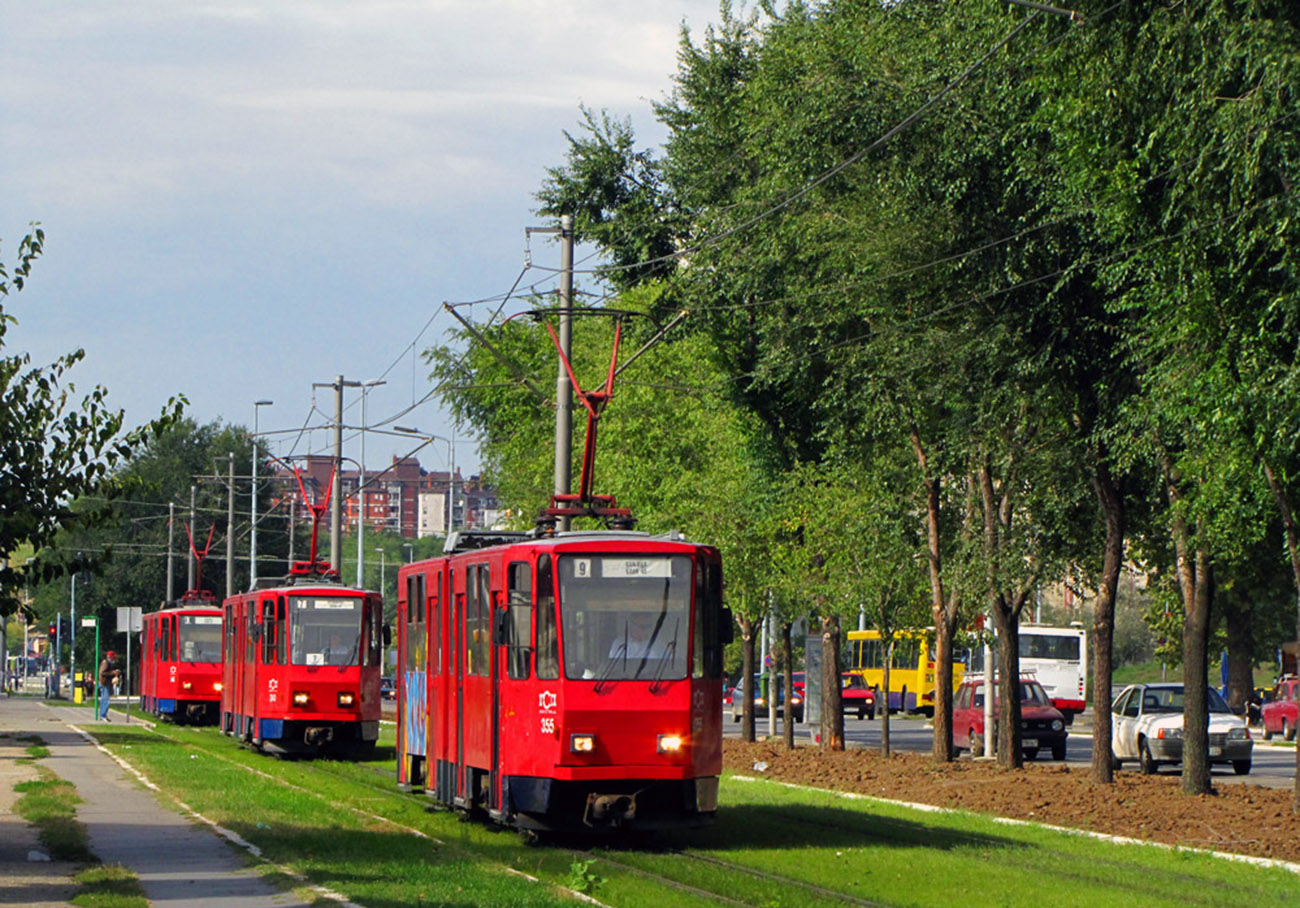 Tatra KT4 in New Belgrade near Block 45